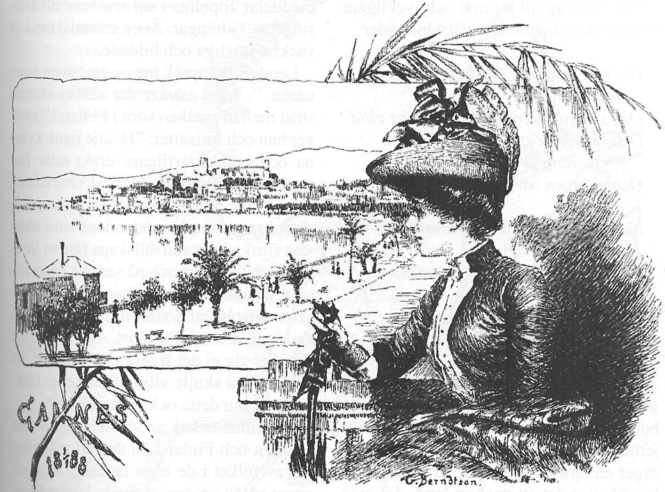 Beach walk in Cannes. Ink drawing by Gunnar Berndtson. Gift from the artist to Zacharias Topelius at his 70th birthday.